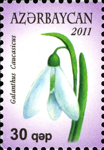 Garabagh flowers - II. Definitive issue.